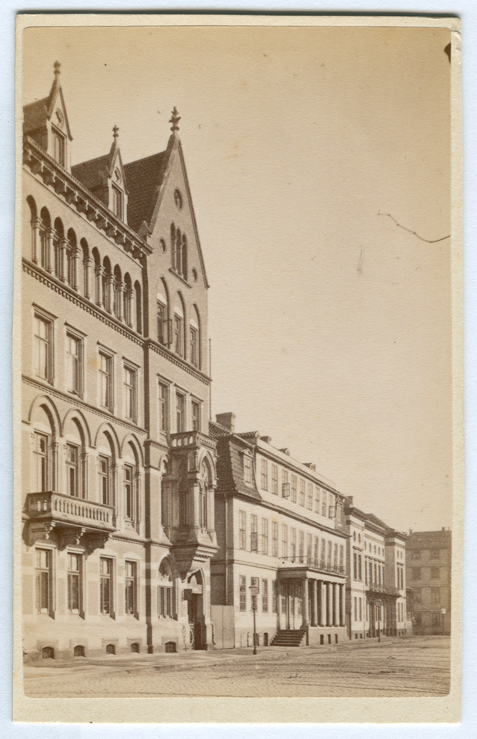 Karl Friedrich Wunder CDV of his Wunder-Haus